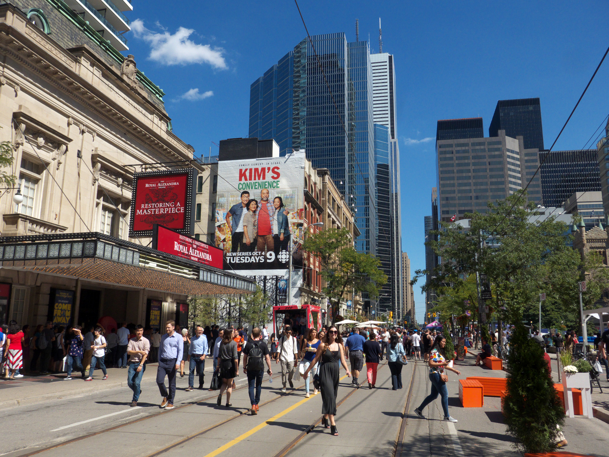 King St West is closed for the opening of Toronto International Film Festival 2016